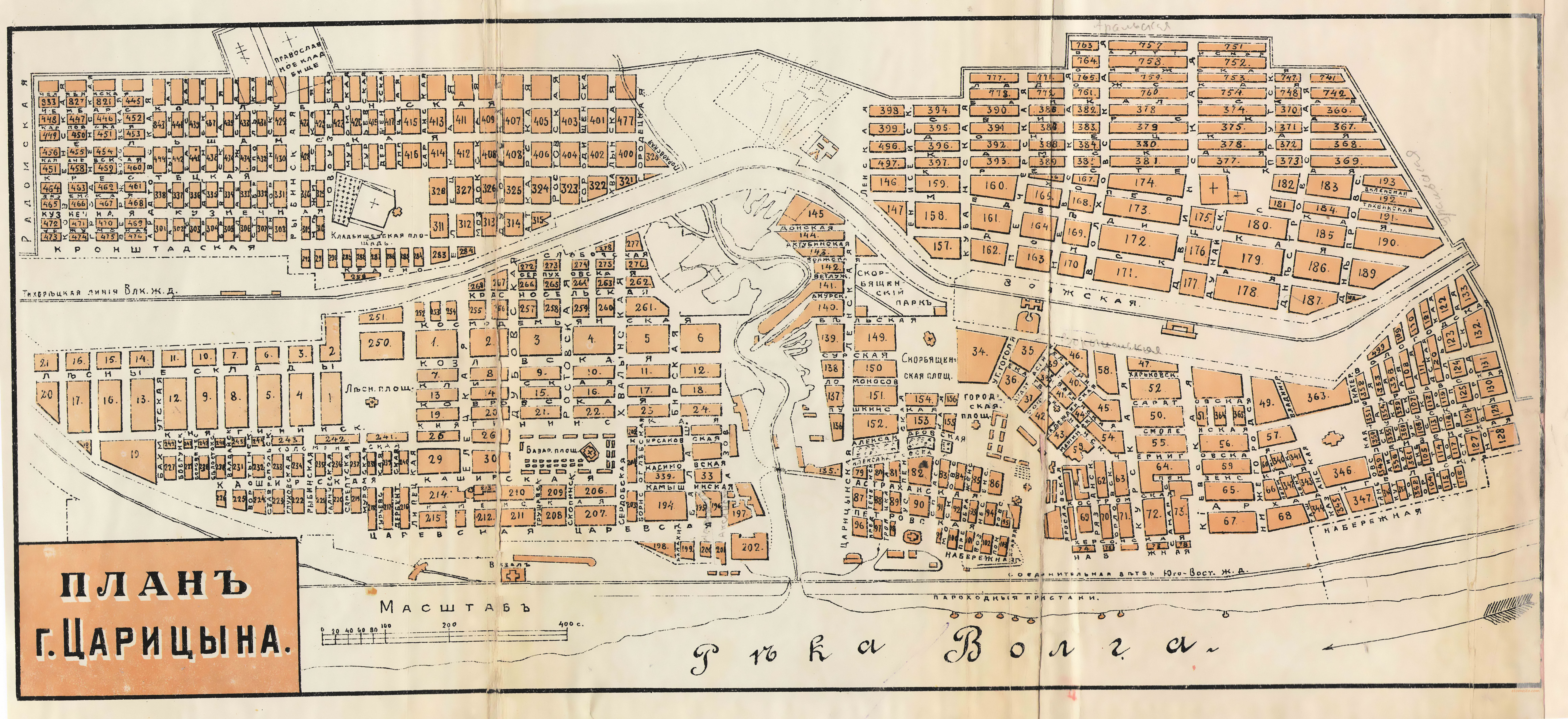 Map of Tsaritsyn in 1909 (present day Volgograd).